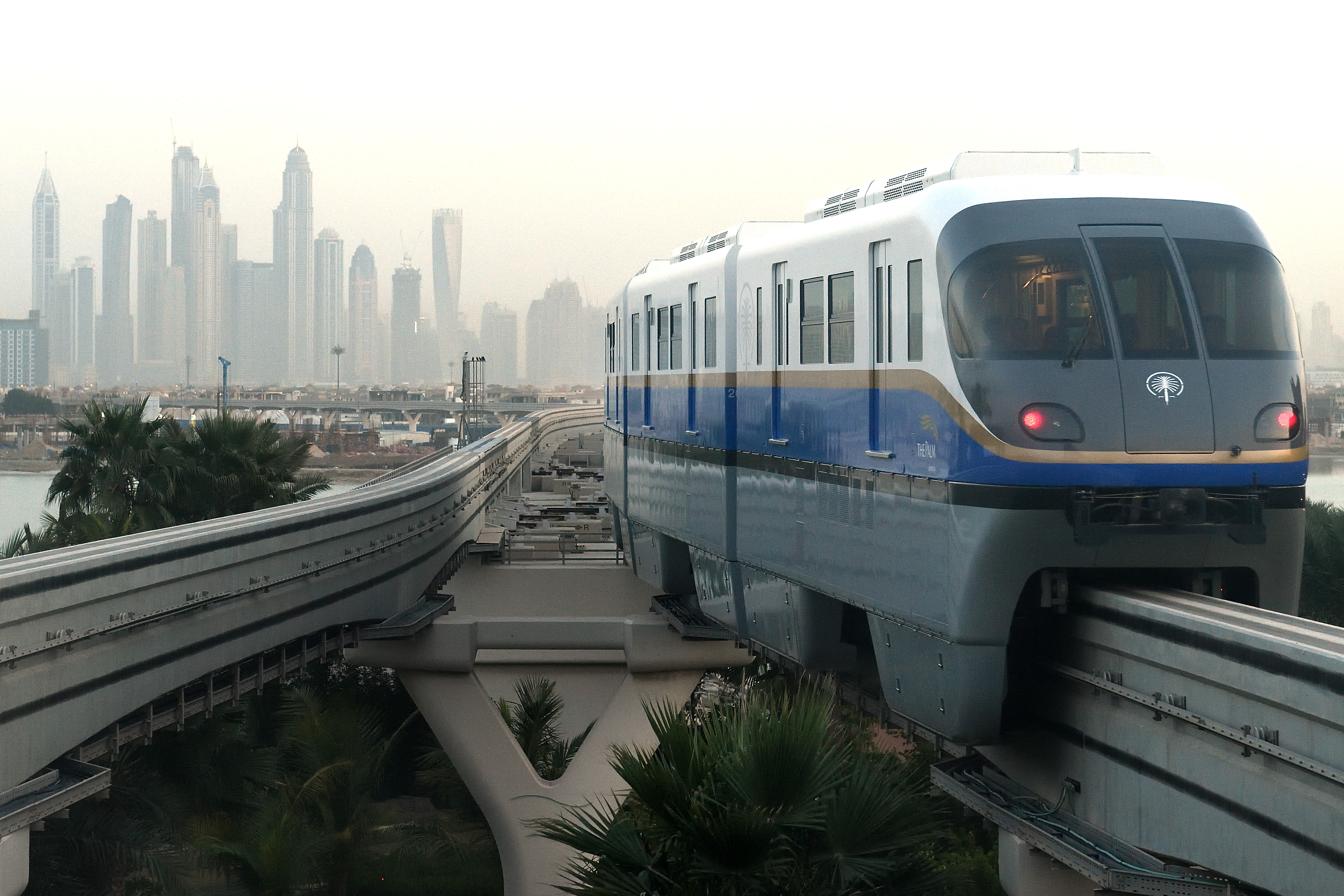 Palm Jumeirah monoral at dusk in Dubai, United Arab Emirates on January 10, 2015